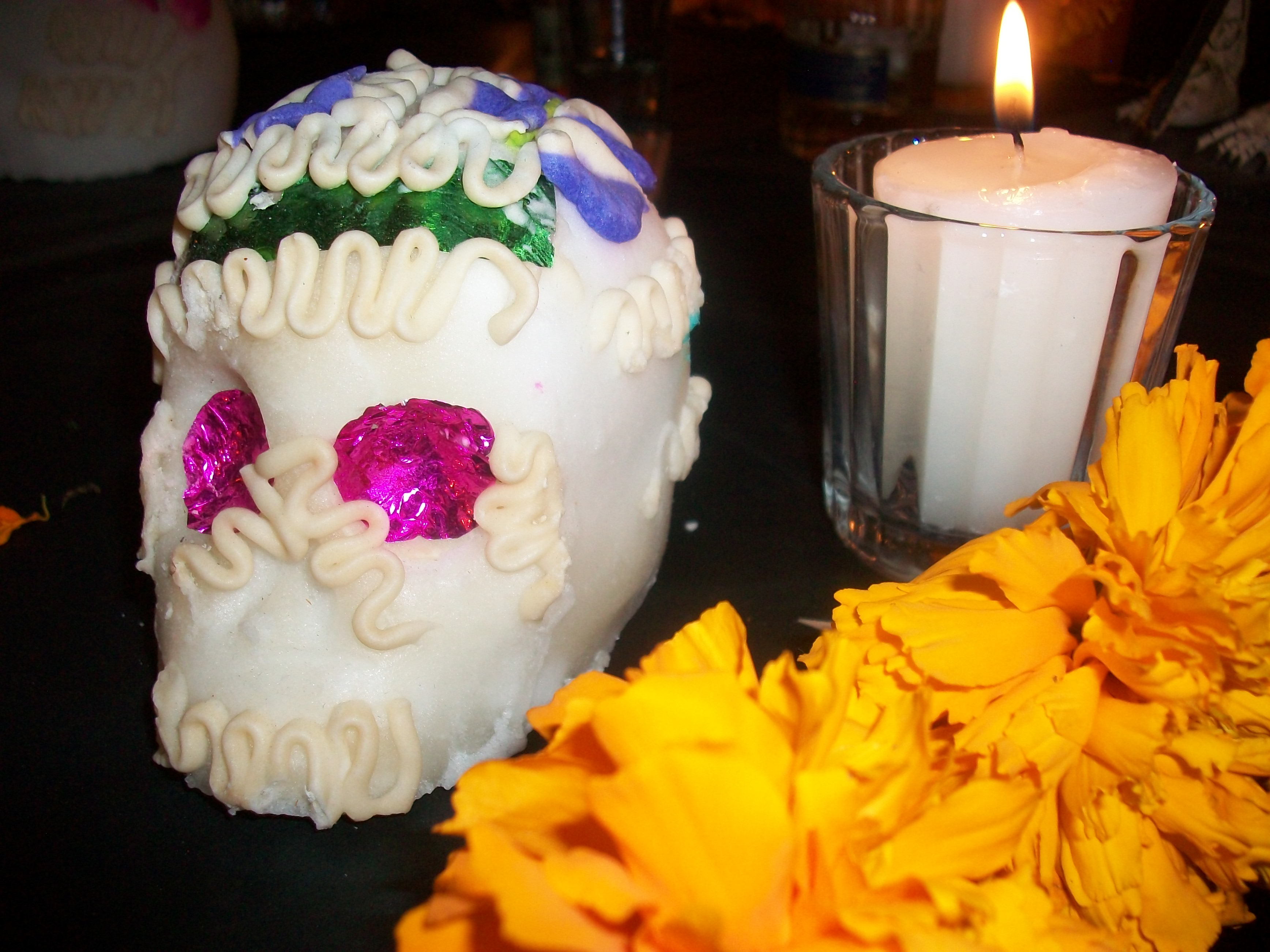 Mexican "Altar de muertos" detail: sugar skull, cempasúchitl flower and candle